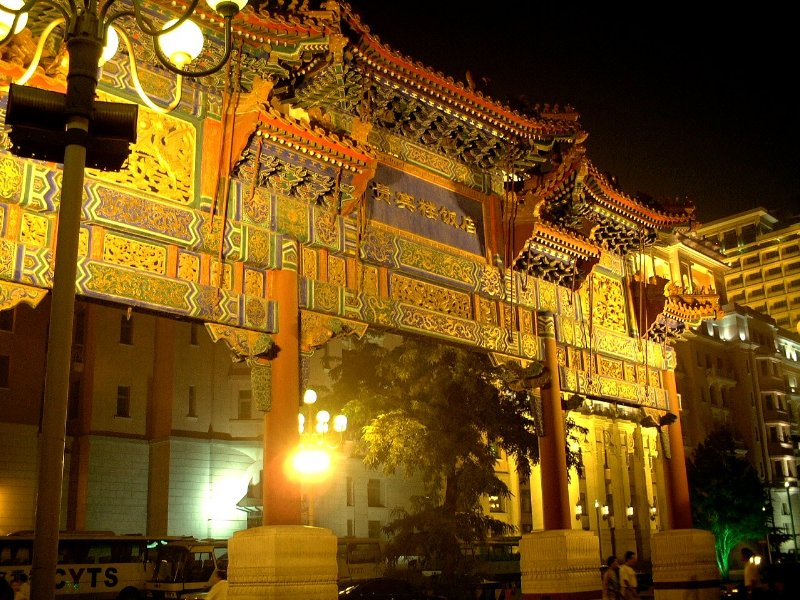 Grand Hotel Beijing (S: 北京贵宾楼饭店, T: 北京貴賓樓飯店, P: Běi​jīng Guì​bīnlóu Fàn​diàn) - No.35 East Chang An Avenue (Dong Chang'an Jie), Beijing 100006